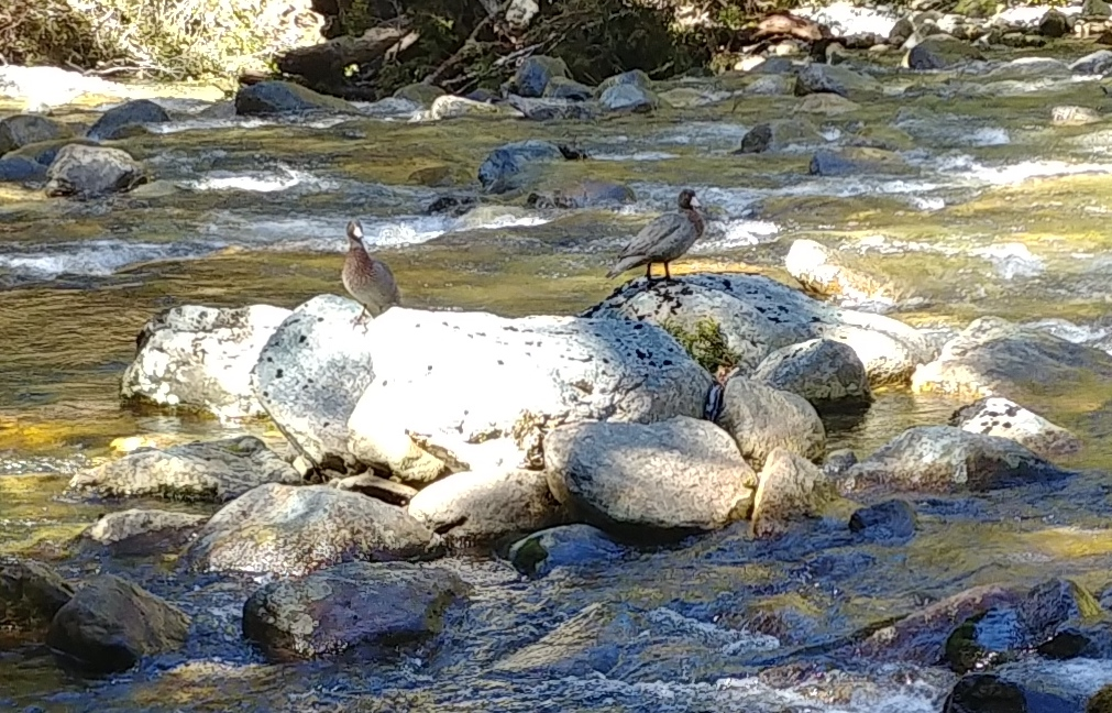 A breeding pair of Whio (Blue duck) near waterfall of Iris Burn, near Iris Burn Hut, Fiordland National Park, New Zealand.